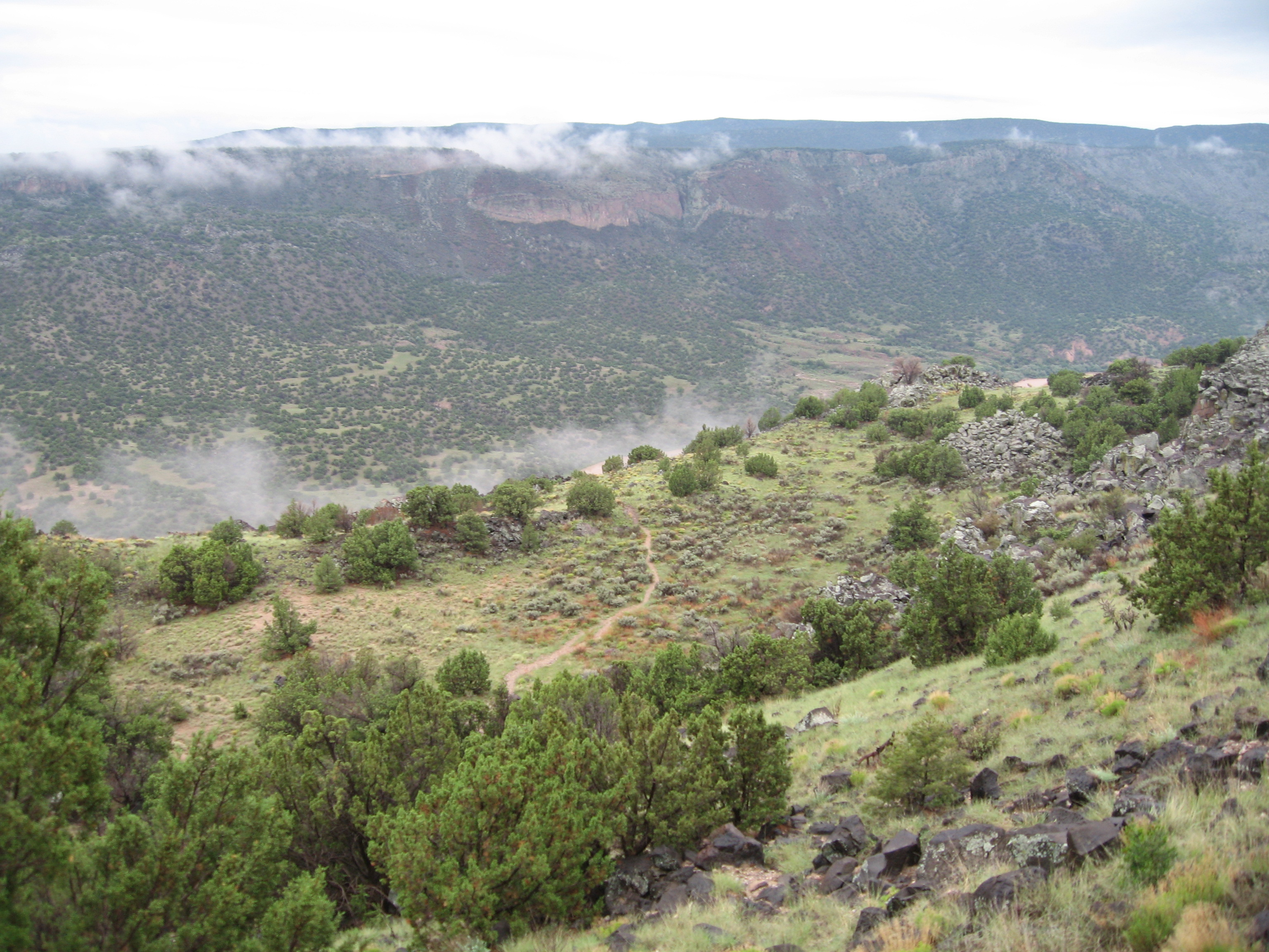 A large Toreva block bench several hundred feet below the level of the parent cliff in White Rock Canyon. In this case, the weaker base is the Tesuque Formation, the stronger overburden is the Cerros del Rio basalts, and the eroding agent is the Rio Grande River. I took this photo myself on 20 August 2006.